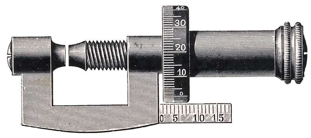 old micrometer